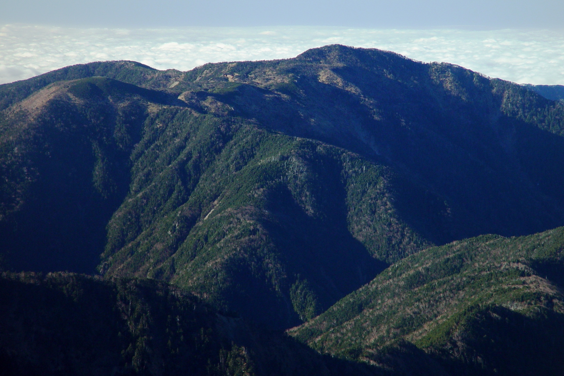 Mount Tekari seen from Mount Kamikochi in Akaishi Mountains, Japan.